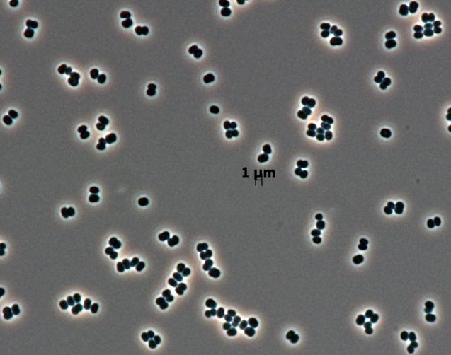 Novel Bacterial Genus Found Only in Spacecraft Assembly Clean Rooms - This microscopic image shows dozens of individual bacterial cells of the recently discovered species Tersicoccus phoenicis. This species has been found in only two places: clean rooms in Florida and South America where spacecraft are assembled for launch. Spacecraft clean rooms are one of the most thoroughly checked environments on Earth for what microbes are present. The monitoring provides an indication of what species might get into space aboard a spacecraft. The image includes a scale bar showing that each of the bacterial cells is about one micrometer, or micron, across (about 0.00004 inch). See related story at